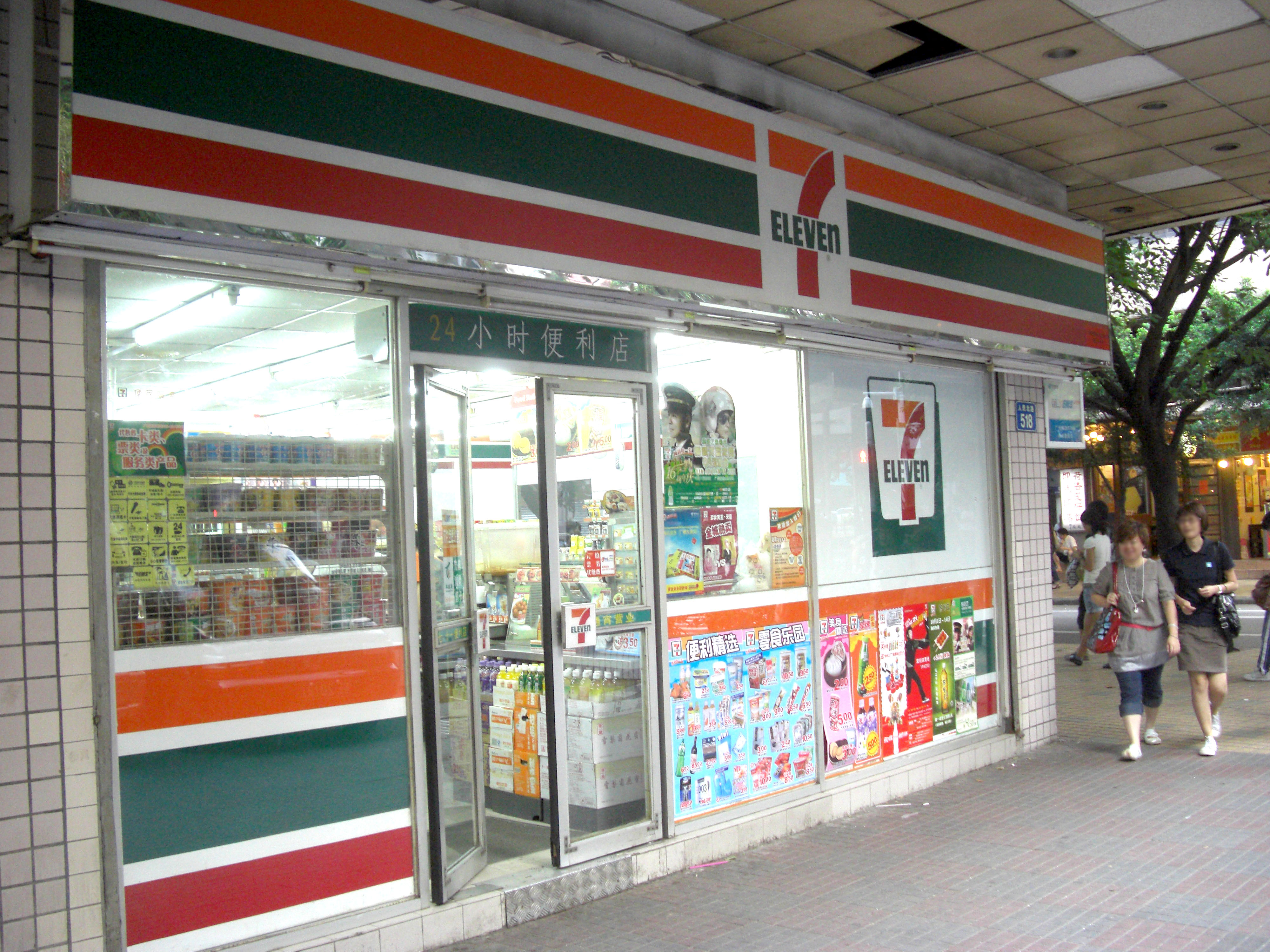 518 Renmin Nouth Road,Yuexiu,Guangzhou,Guangdong,China.